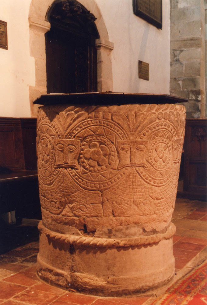 Baptismal font in St Gregory's parish church, Morville, Shropshire